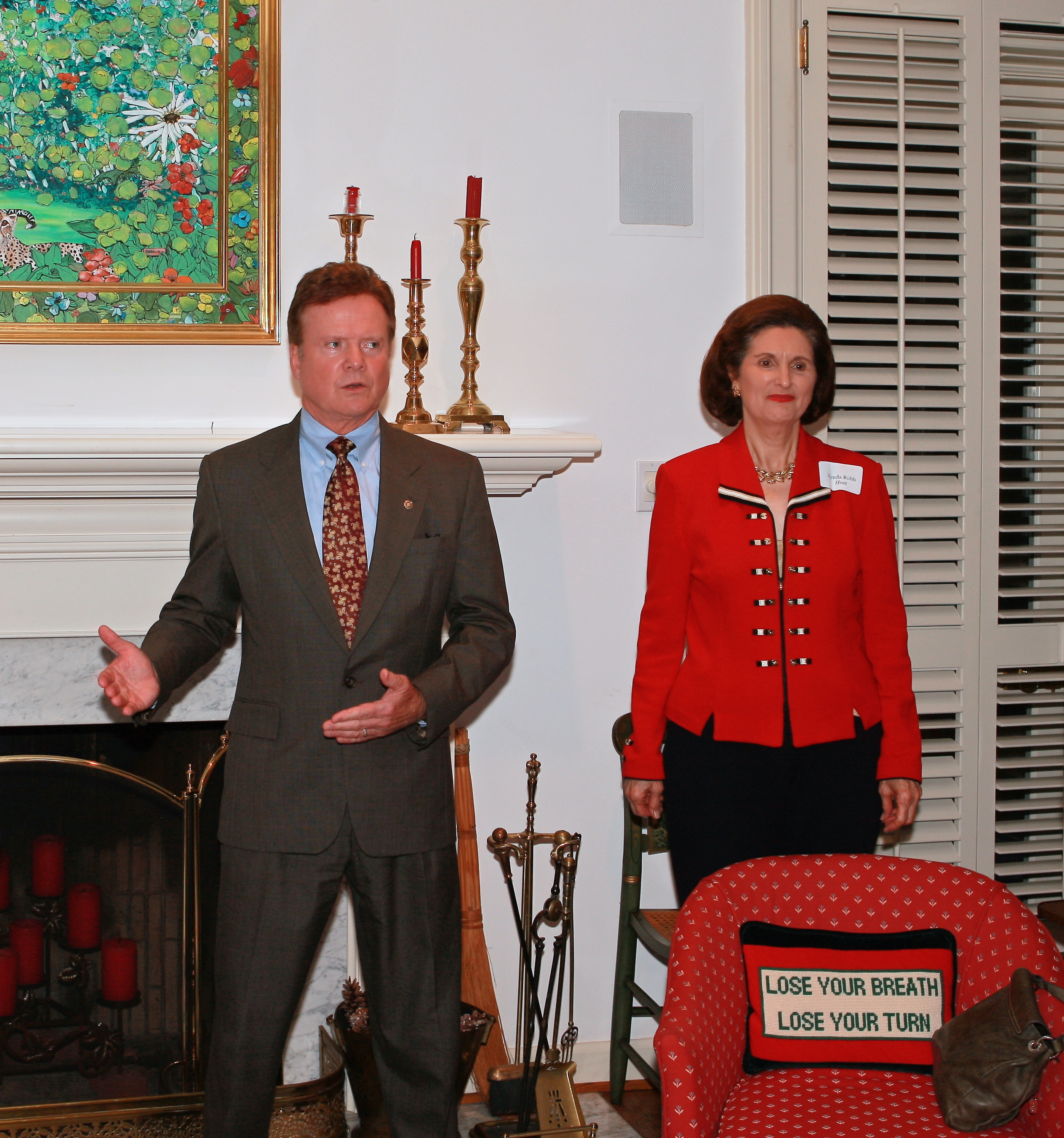 at a reception